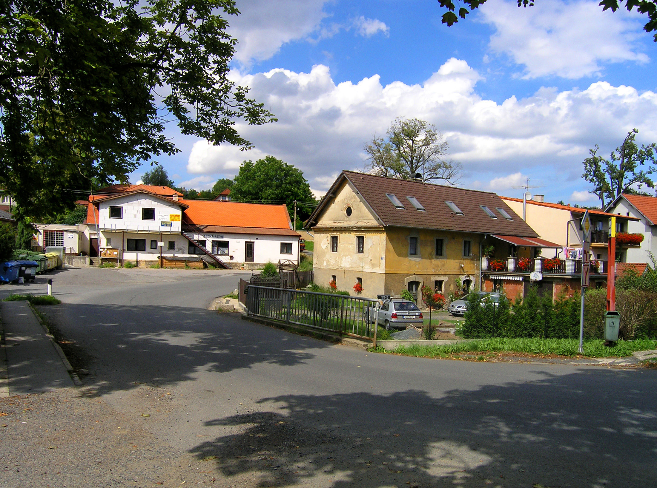 Common in Kunice, Czech Republic